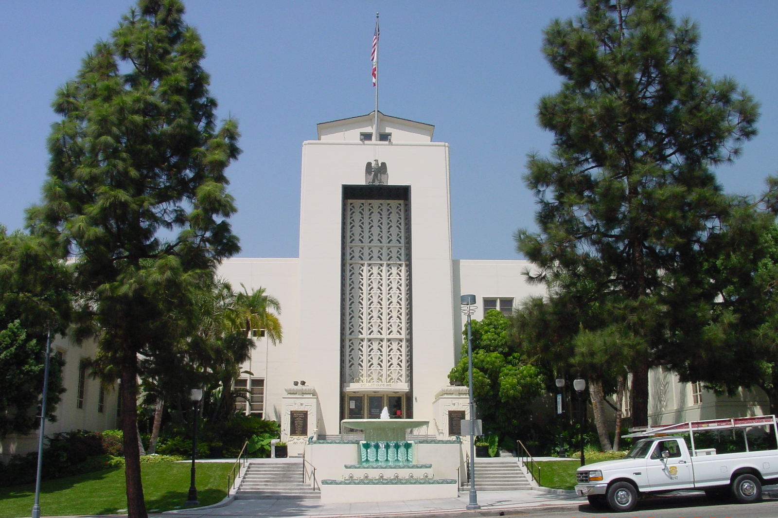 Burbank City Hall, Front, Olive and 3rd street in Burbank, California